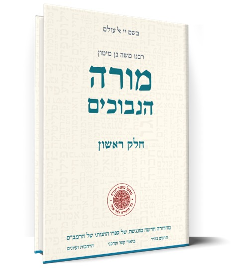 Mishne Torah Project's edition of the Guide for the Perplexed